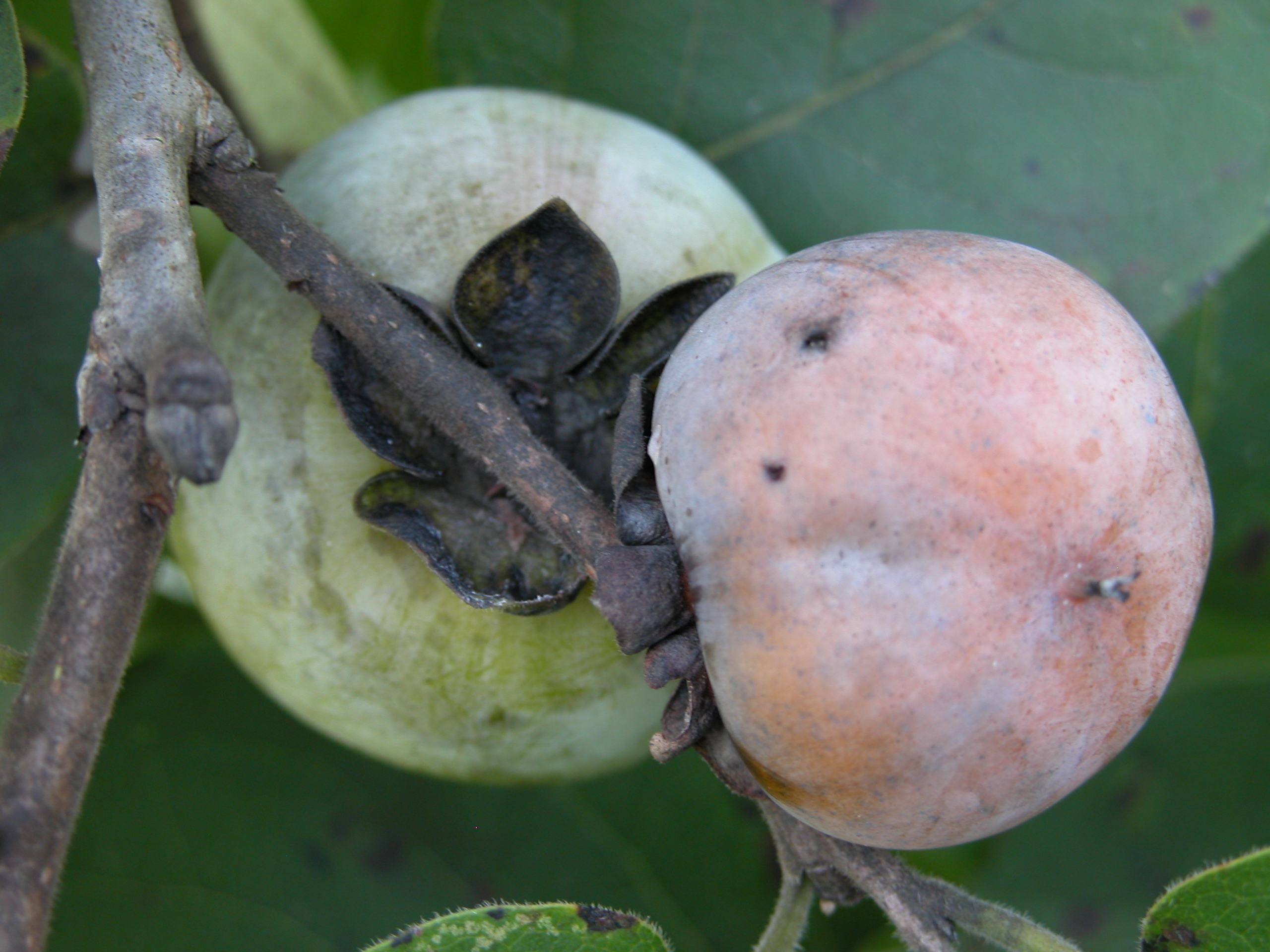 American Persimmons (Diospyros virginiana / Ebenaceae) in Tampa, Florida